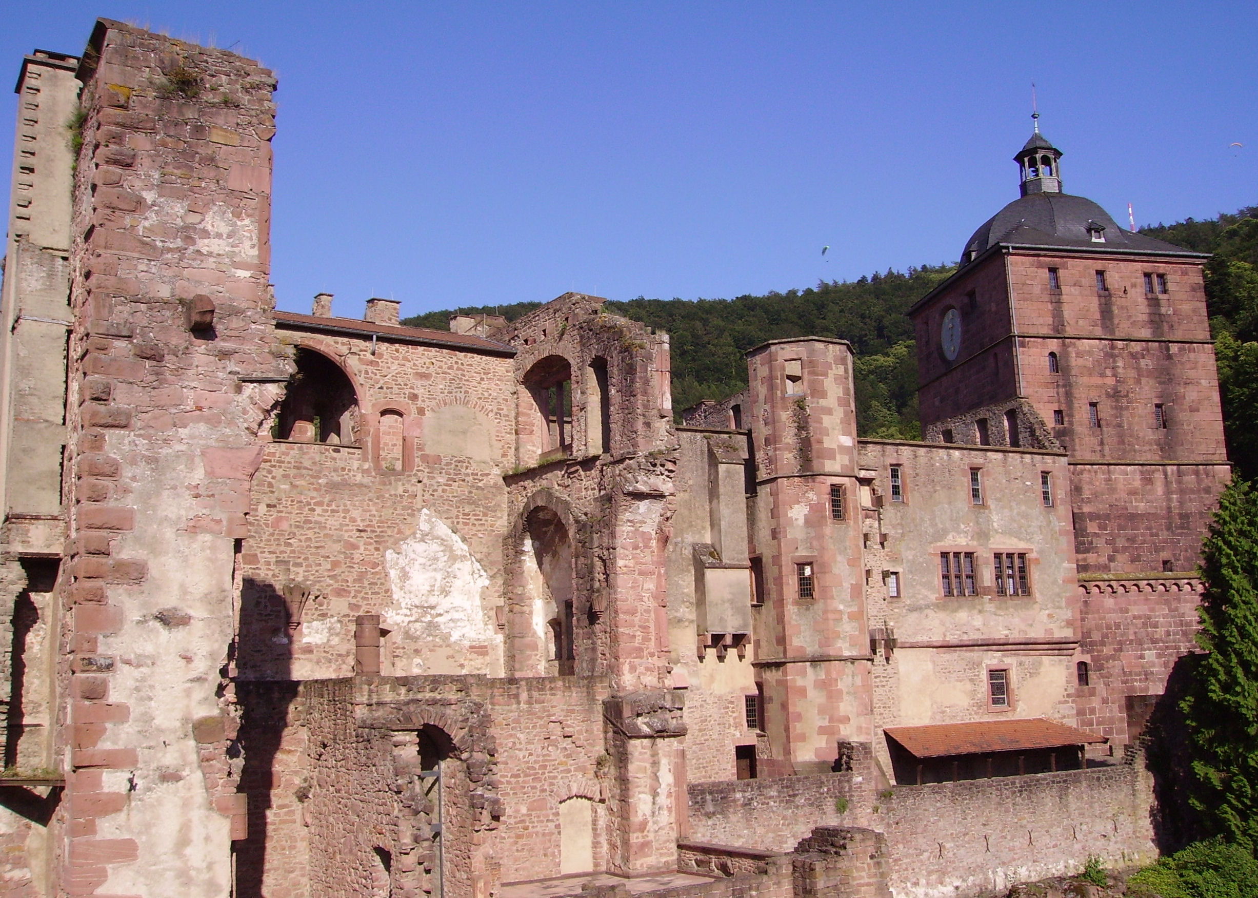 part of Heidelberg castle (Heidelberger Schloss)